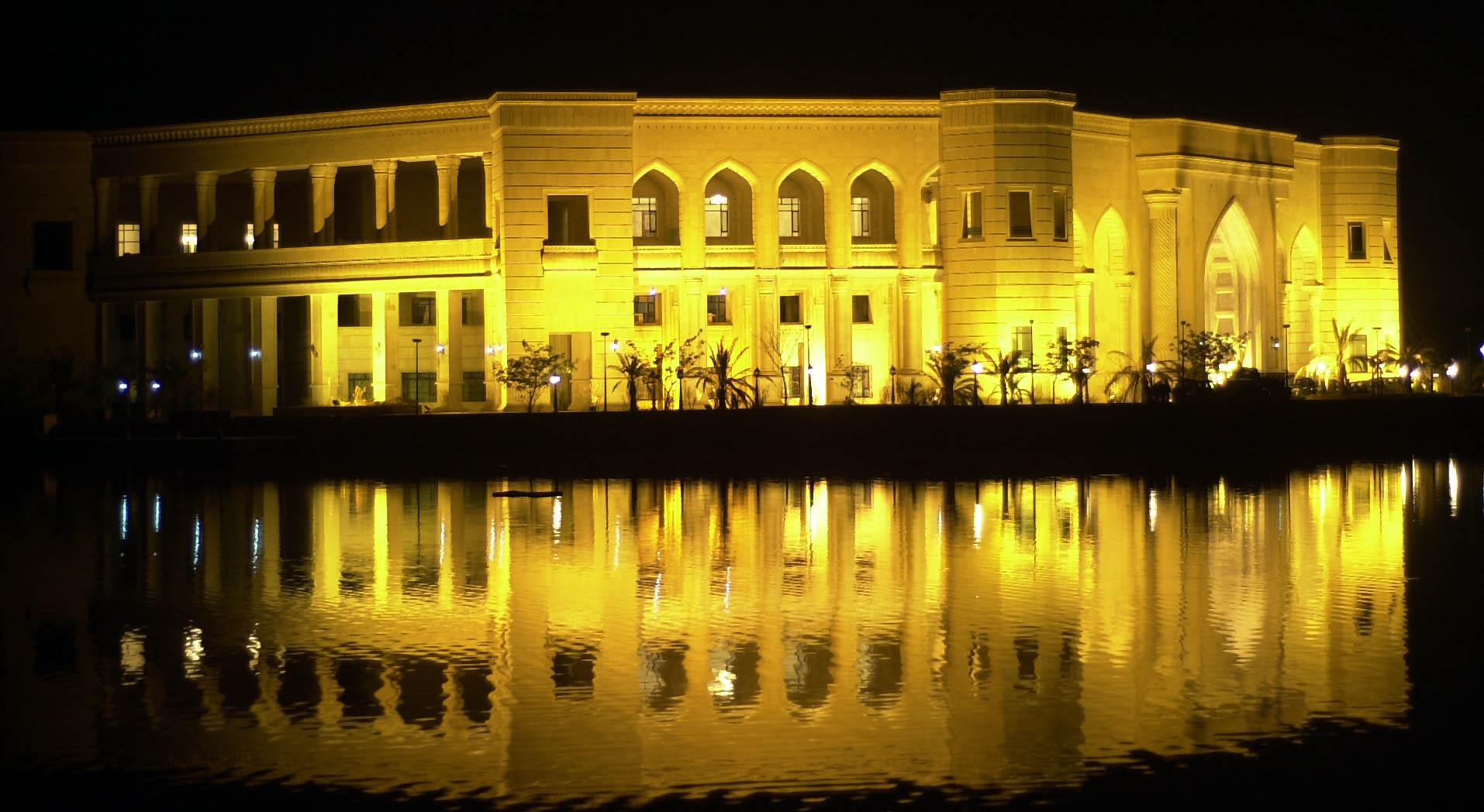 I took the picture while I was stationed at Camp Victory, from Jan 2005-Jan 2006. Image is of the Al Faw Palace illuminated during the Change of Command ceremony in early Feb, 2005, between III Corps and XVIII Airborne Corps.